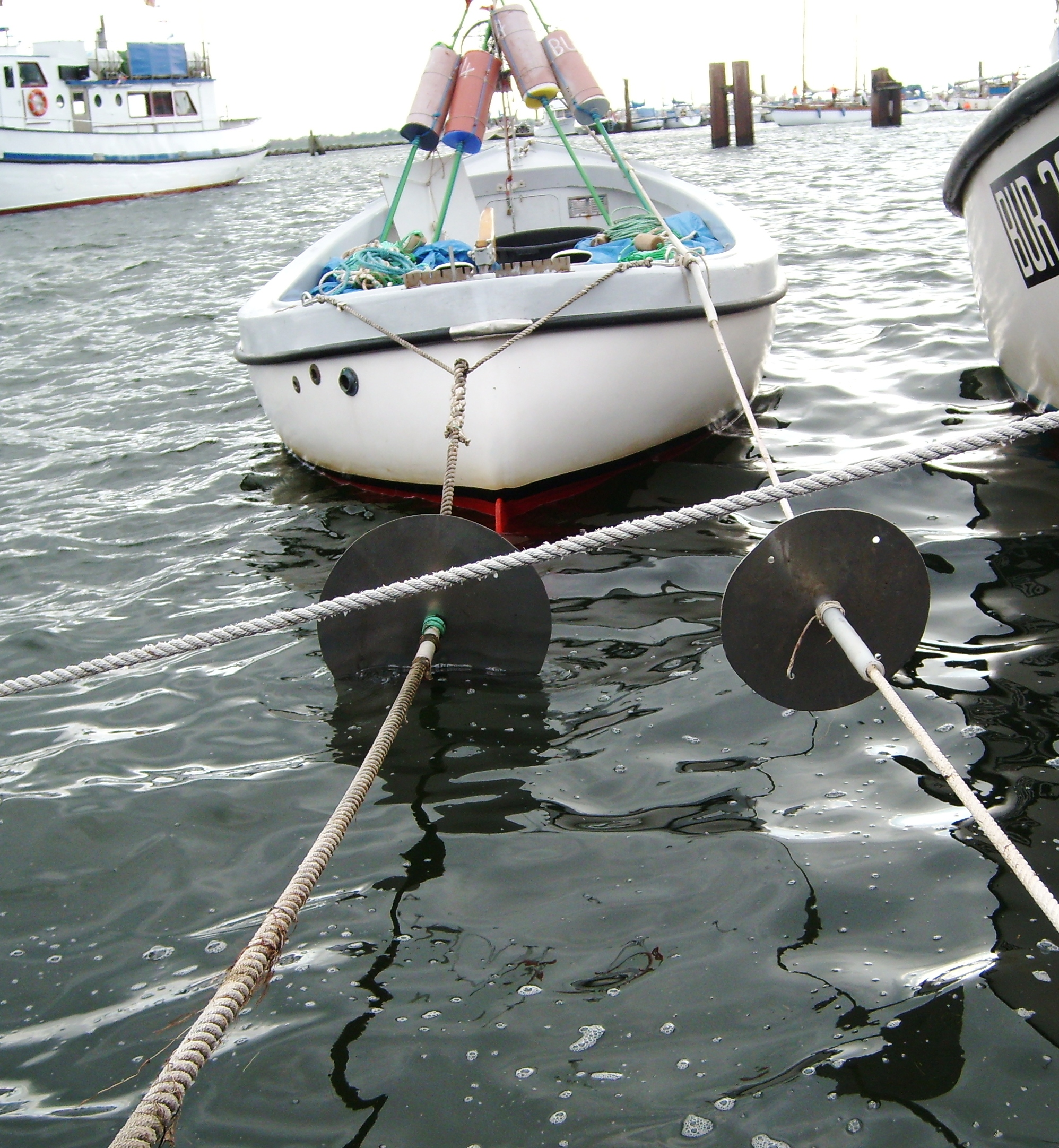 Two rat guards. Fishing port of Burgstaaken on Fehmarn.